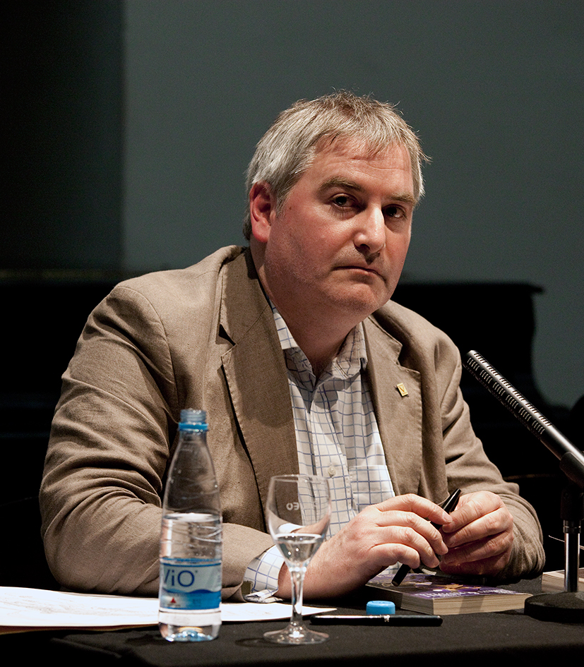 The englisch author and illustrator of children's literature Chris Riddell at litcologne, Cologne, Germany, 2009-03-13